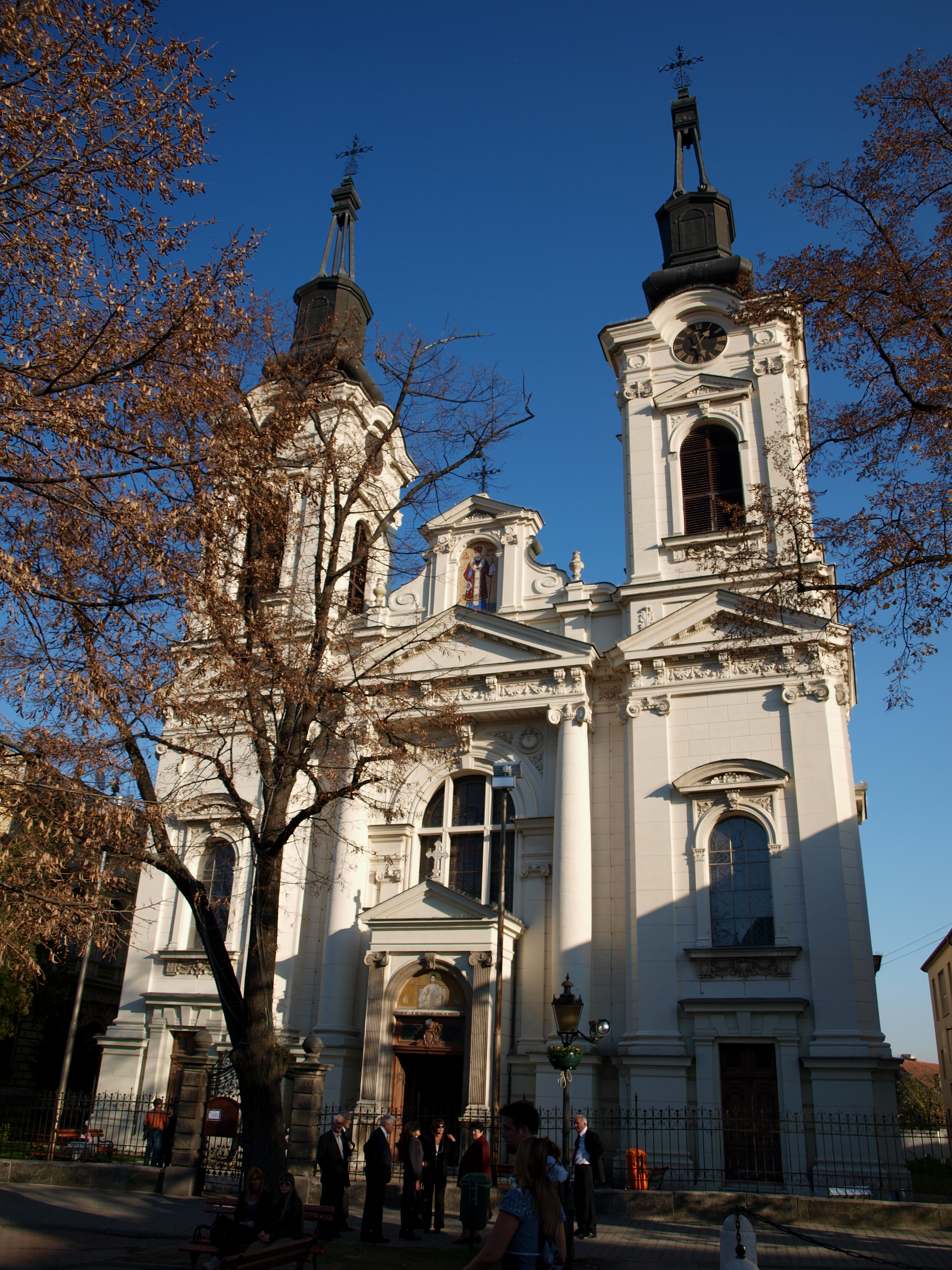 Orthodox church in Sremski Karlovci, Serbia.